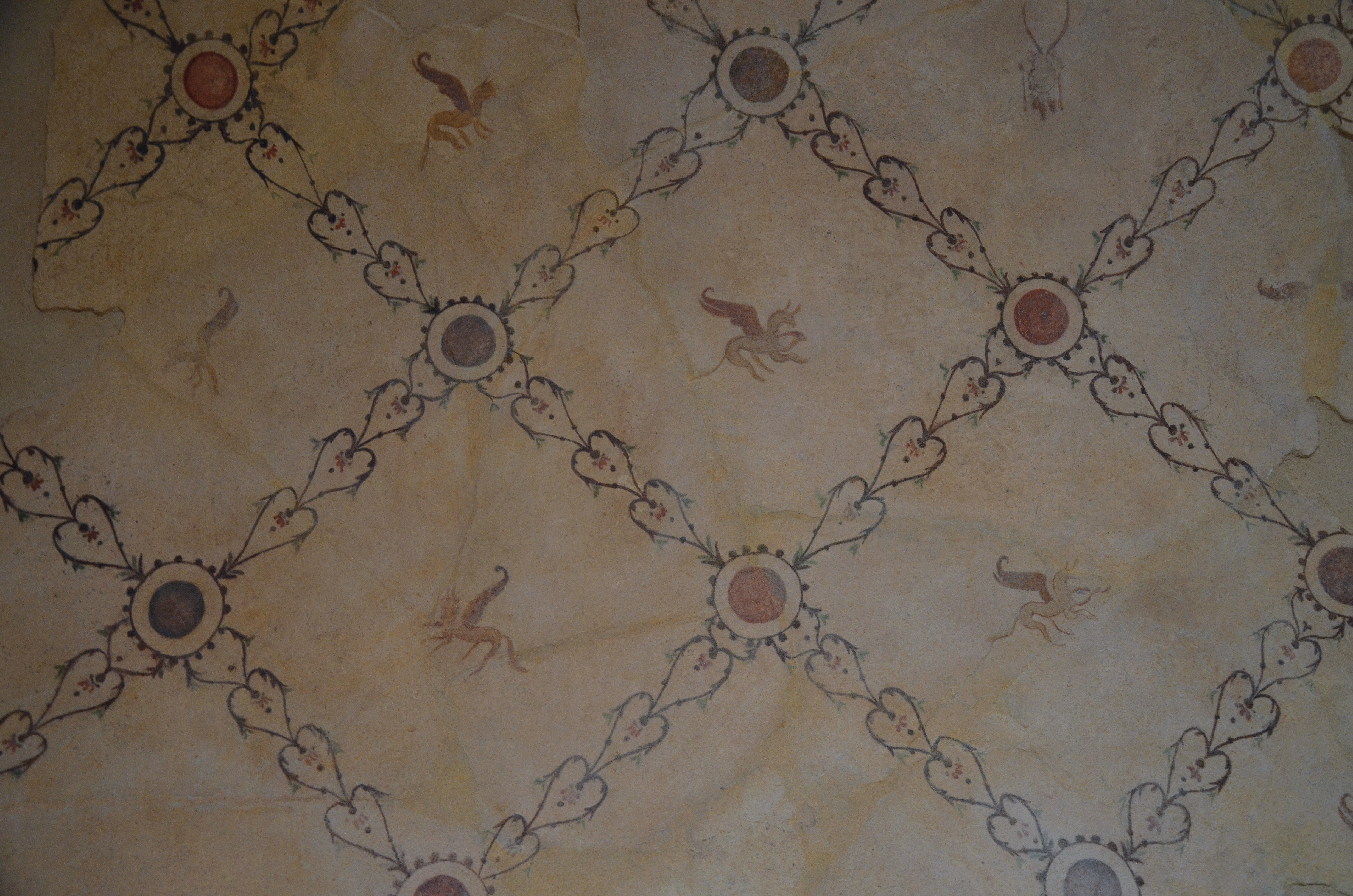 Fresco with Pegasus, middle of 1st century AD, Archaeological Museum of Formia, Italy